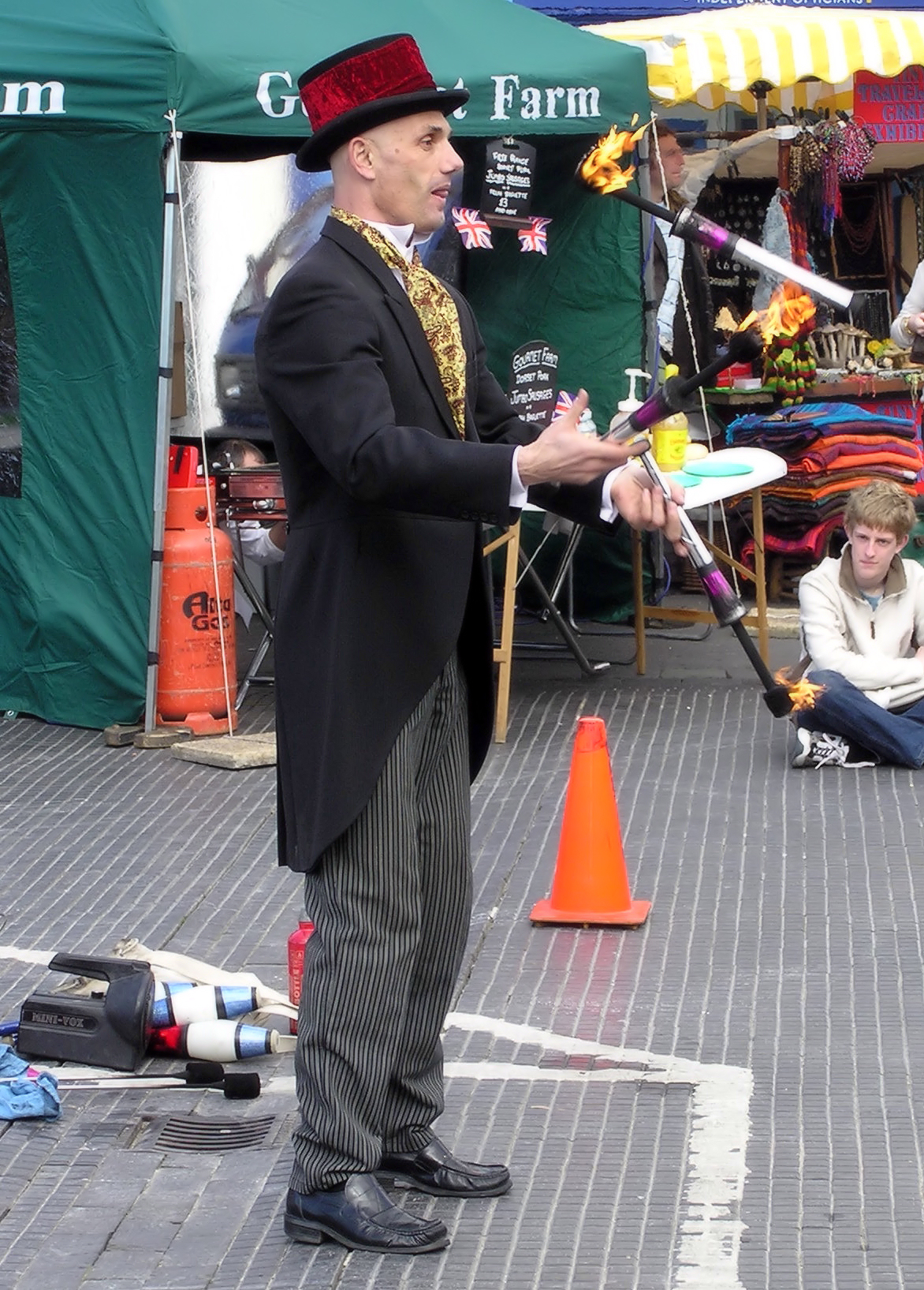 Fire juggler in Devizes, Wiltshire, England.